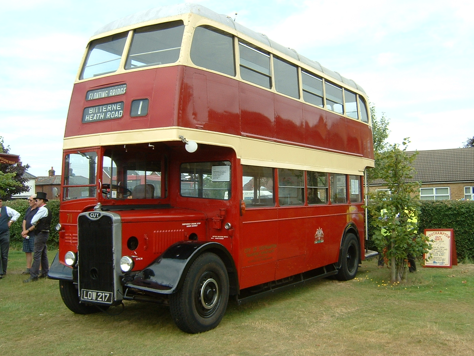 1954 Guy Arab omnibus in Southampton Coporation livery